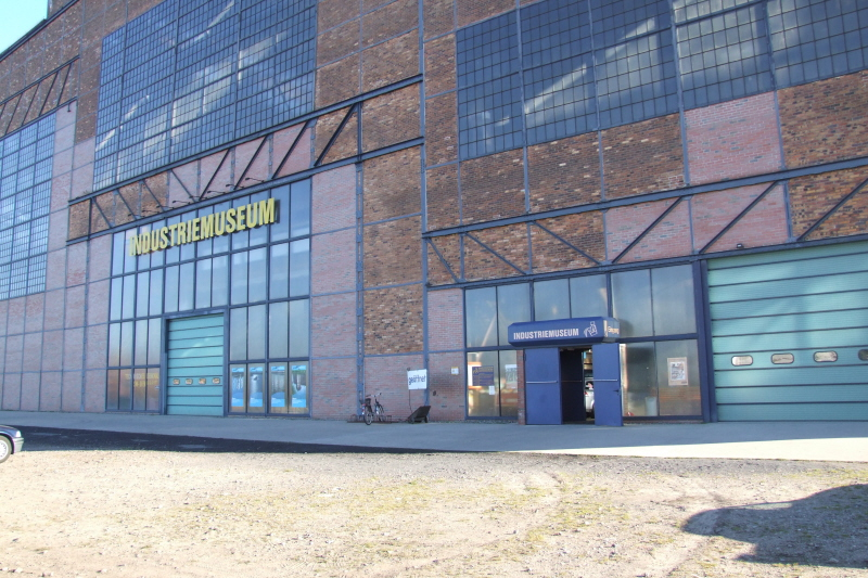 Entry to Industriemuseum Brandenburg